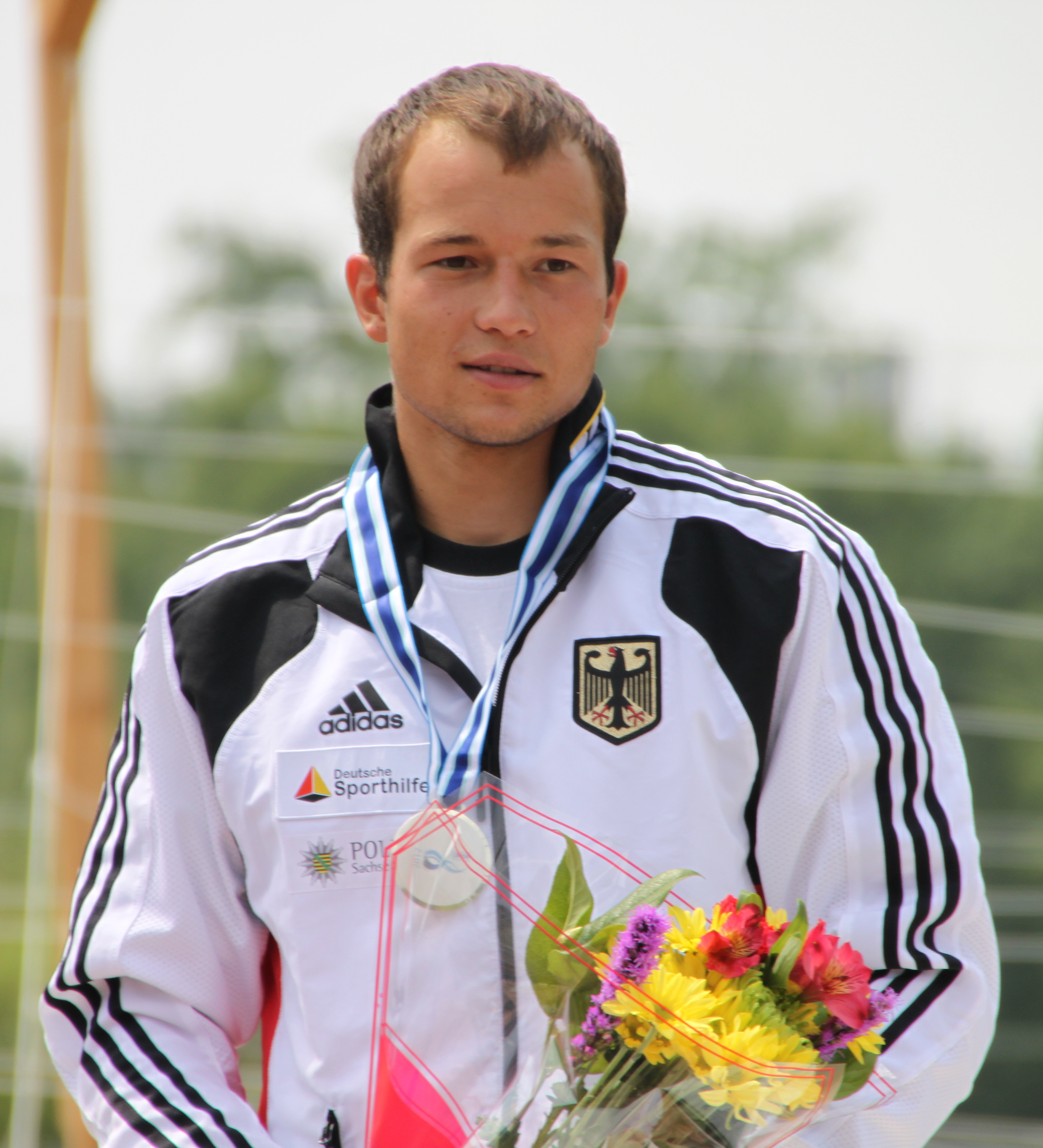 Franz Anton 2012 at the presentation ceremony of the U23 canoeing world championships in Wausau, USA.